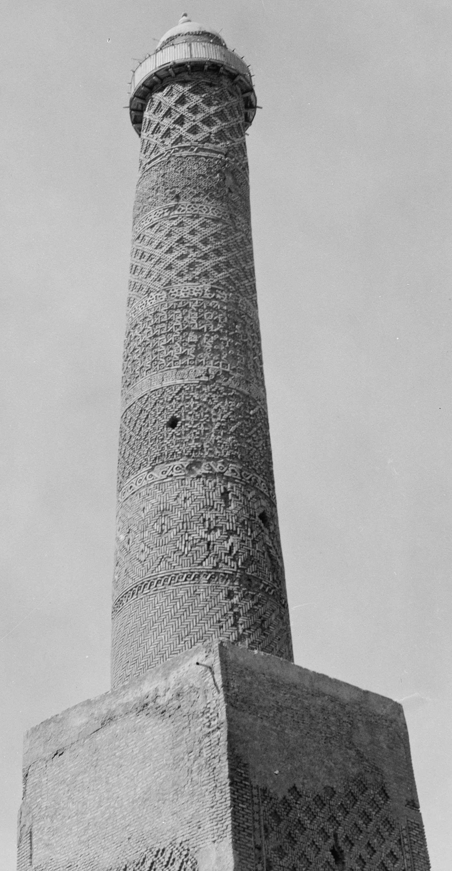 Iraq. Mosul. The leaning tower showing detail of arabesque decoration (Hadba Minaret).